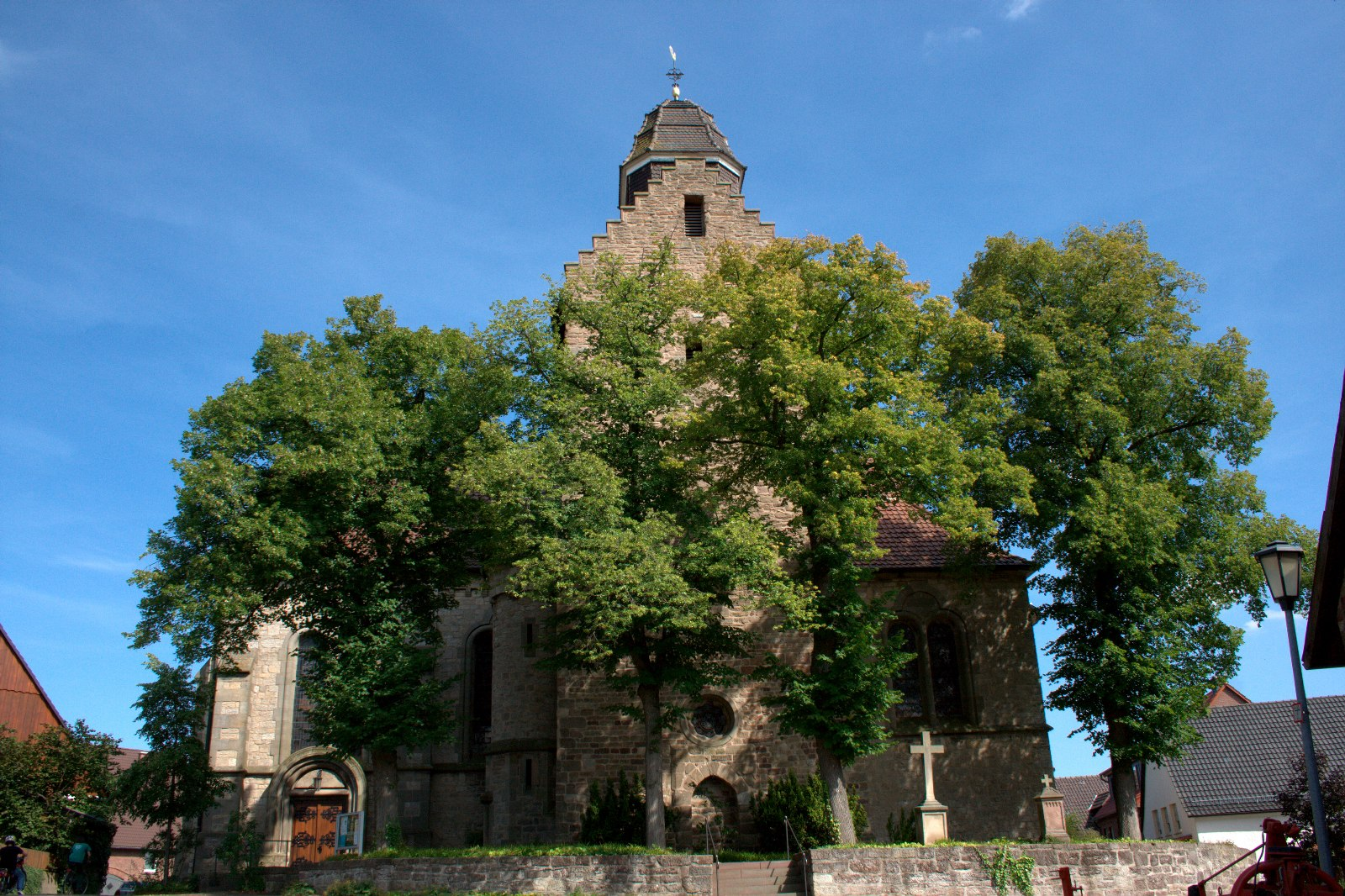 St. Libroius Church in Eissen, view from the west